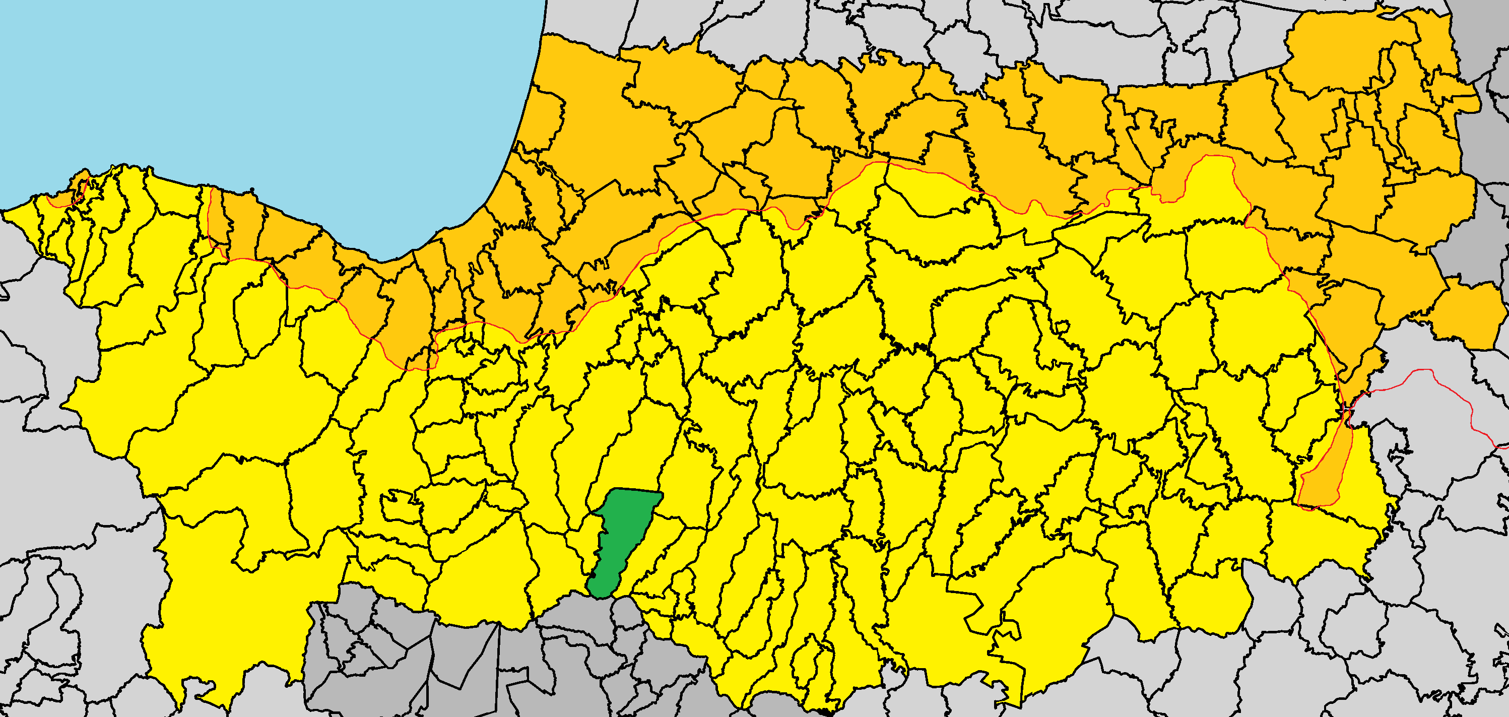 Kannavia in Nicosia District.